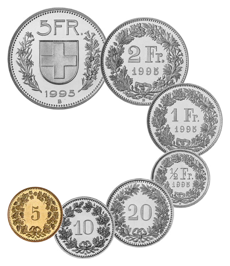 CHF coins